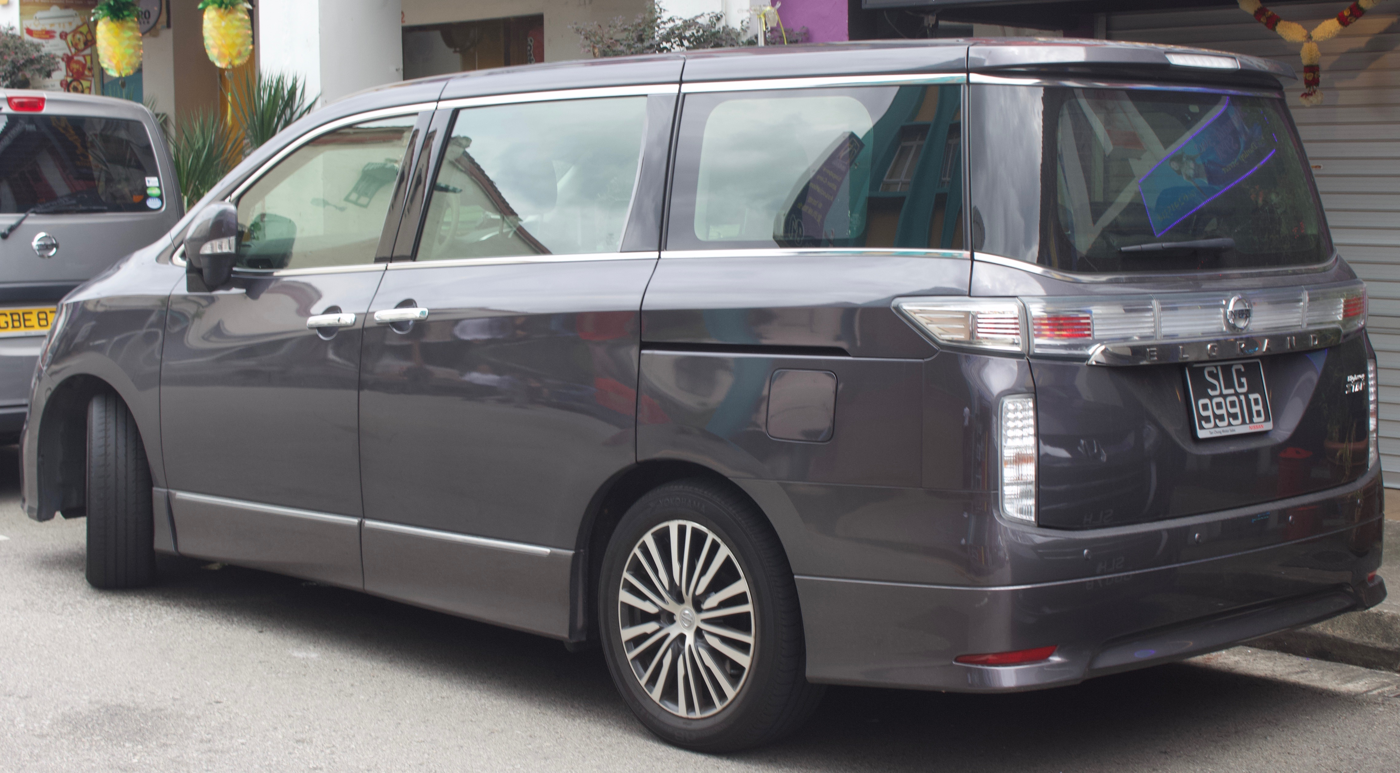 2014-2017 Nissan Elgrand (E52) 2.5 Highway Star van. Photographed in Singapore.